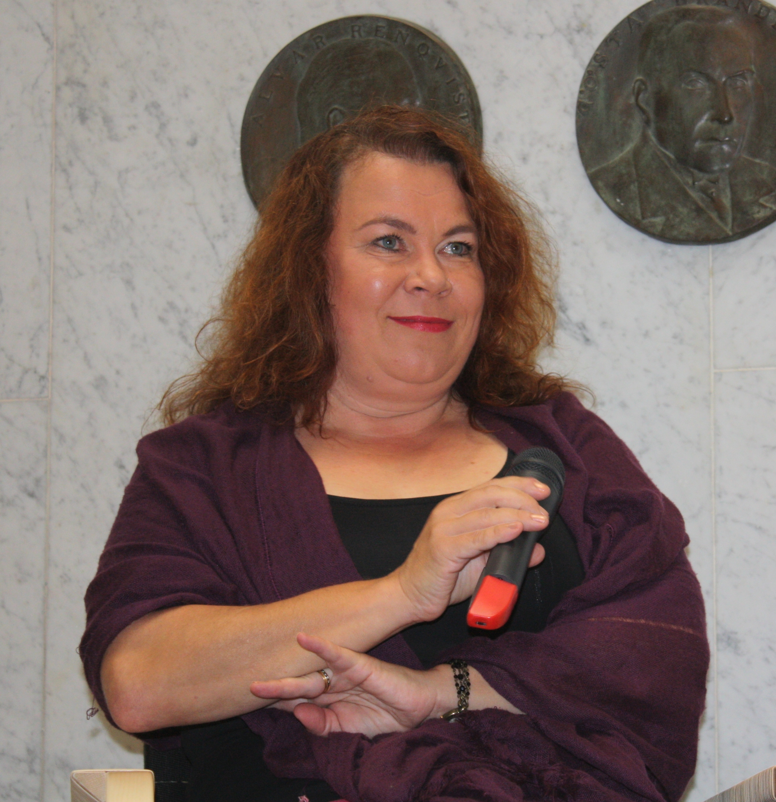 Finnish writer Leena Lehtolainen visited the bookstore Akateeminen kirjakauppa in Helsinki.